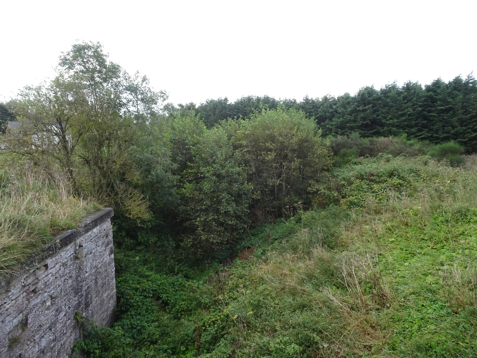 Plaidy railway station (site), AberdeenshireOpened in 1860 by the Banff Macduff & Turriff Extension Railway, later part of the Great North of Scotland Railway, on the line from Inveramsay to Macduff, this station closed to passengers in 1951 and completely in 1961. View south towards the station site (hidden in the trees), Turriff and Inveramsay.